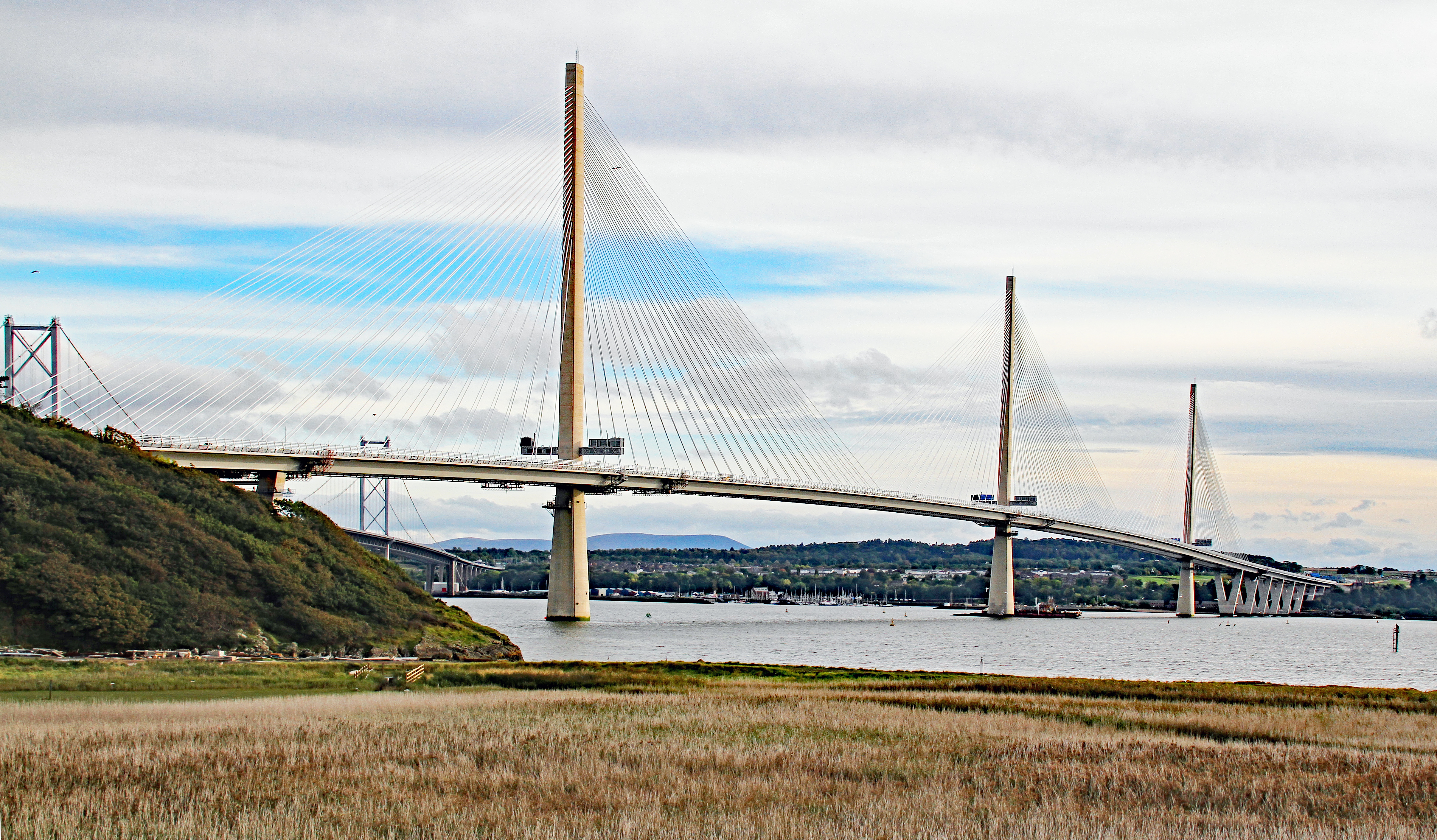 Queensferry Bridge 2